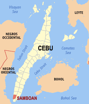 Map of Cebu showing the location of Samboan